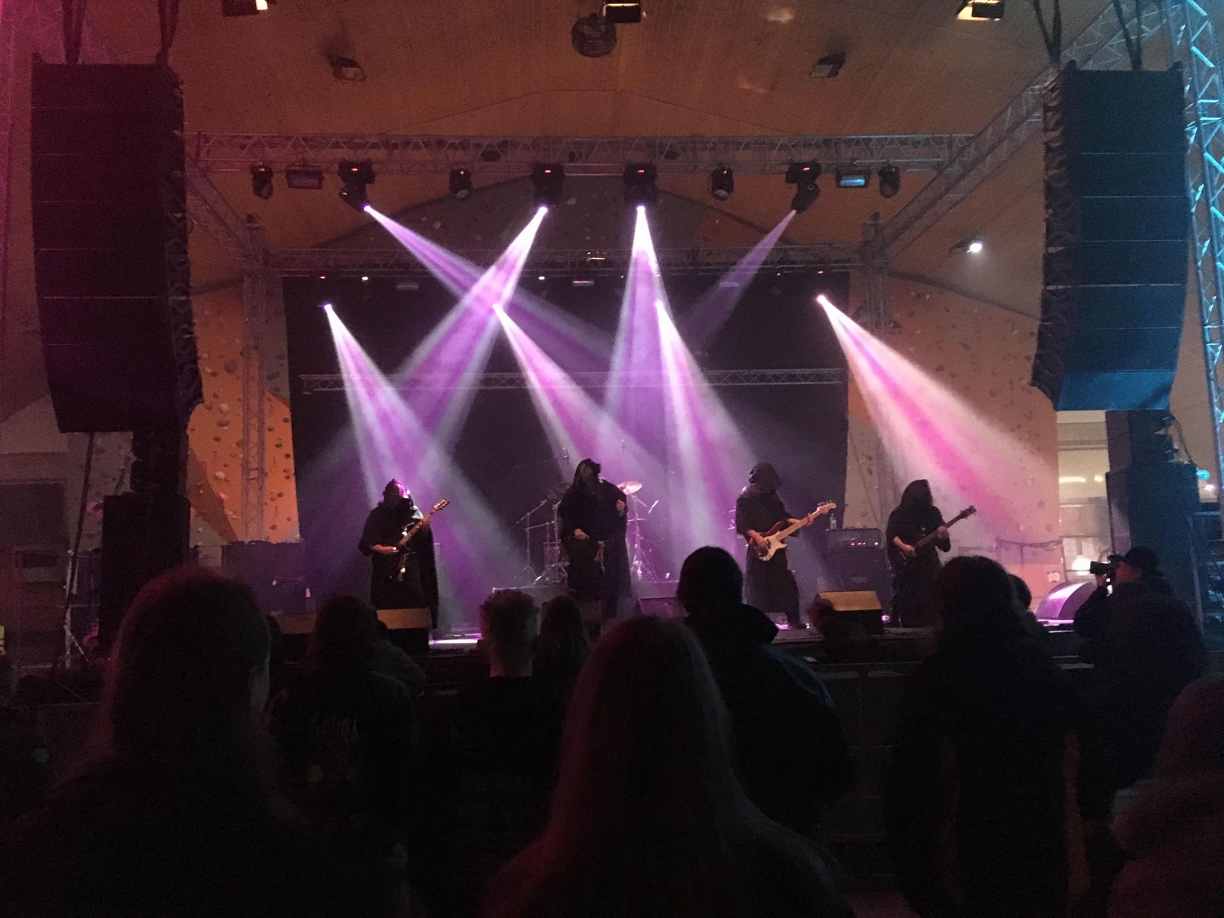 Valuk at the Winter Days of Metal, 2018